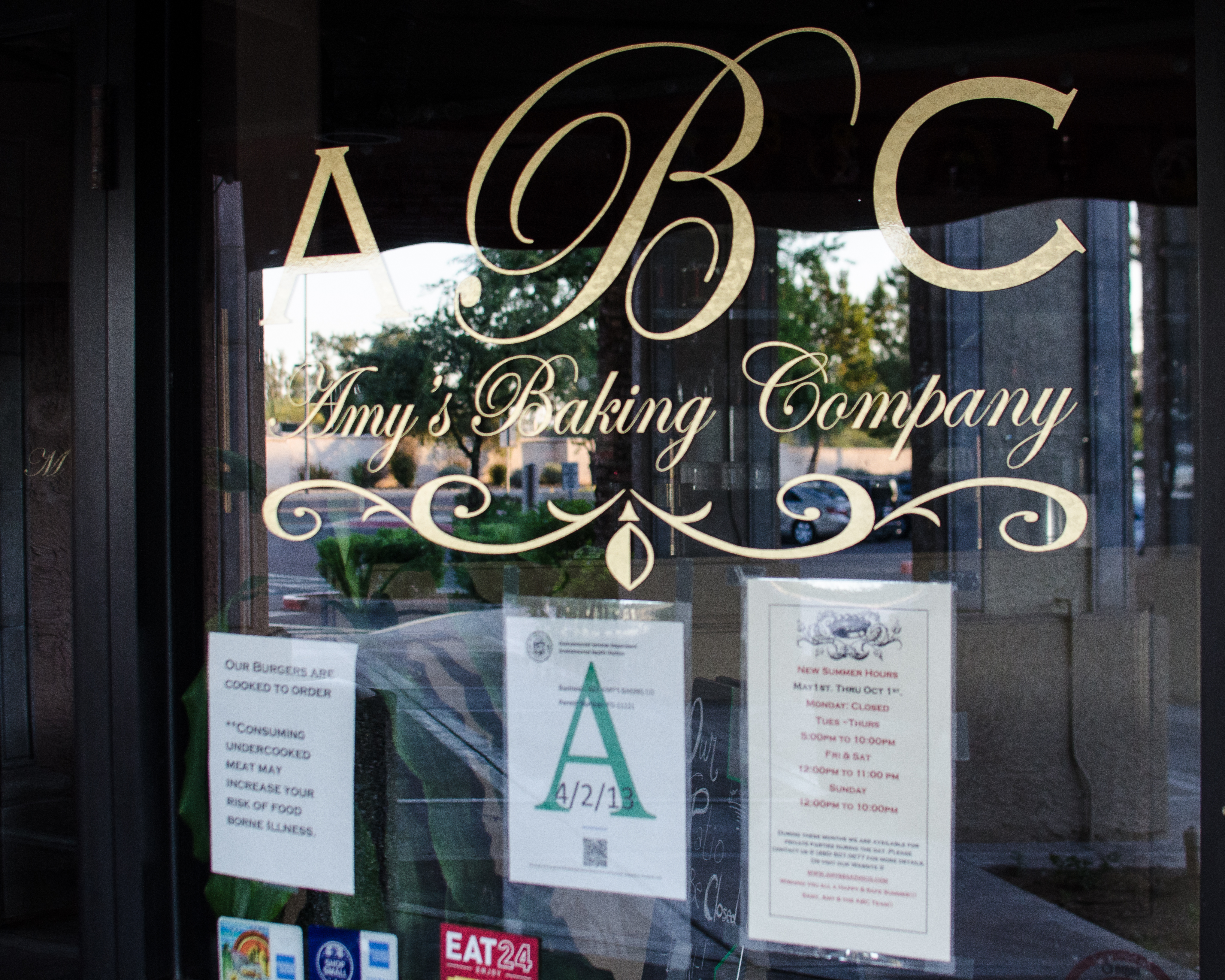 the front door of Amy's Baking Company showing the restaurant's logo